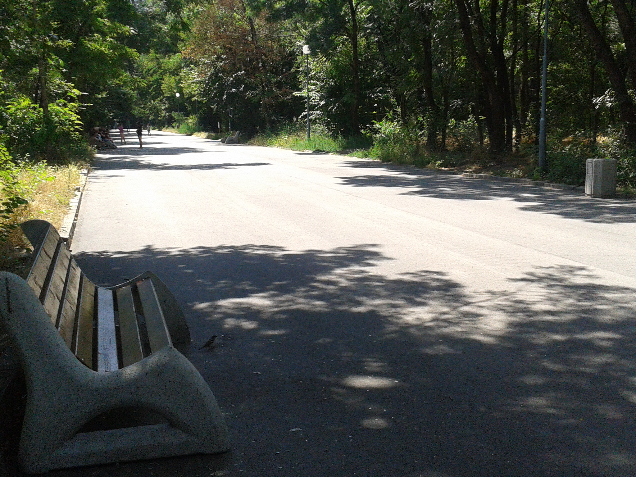 Lauta Park - Plovdiv